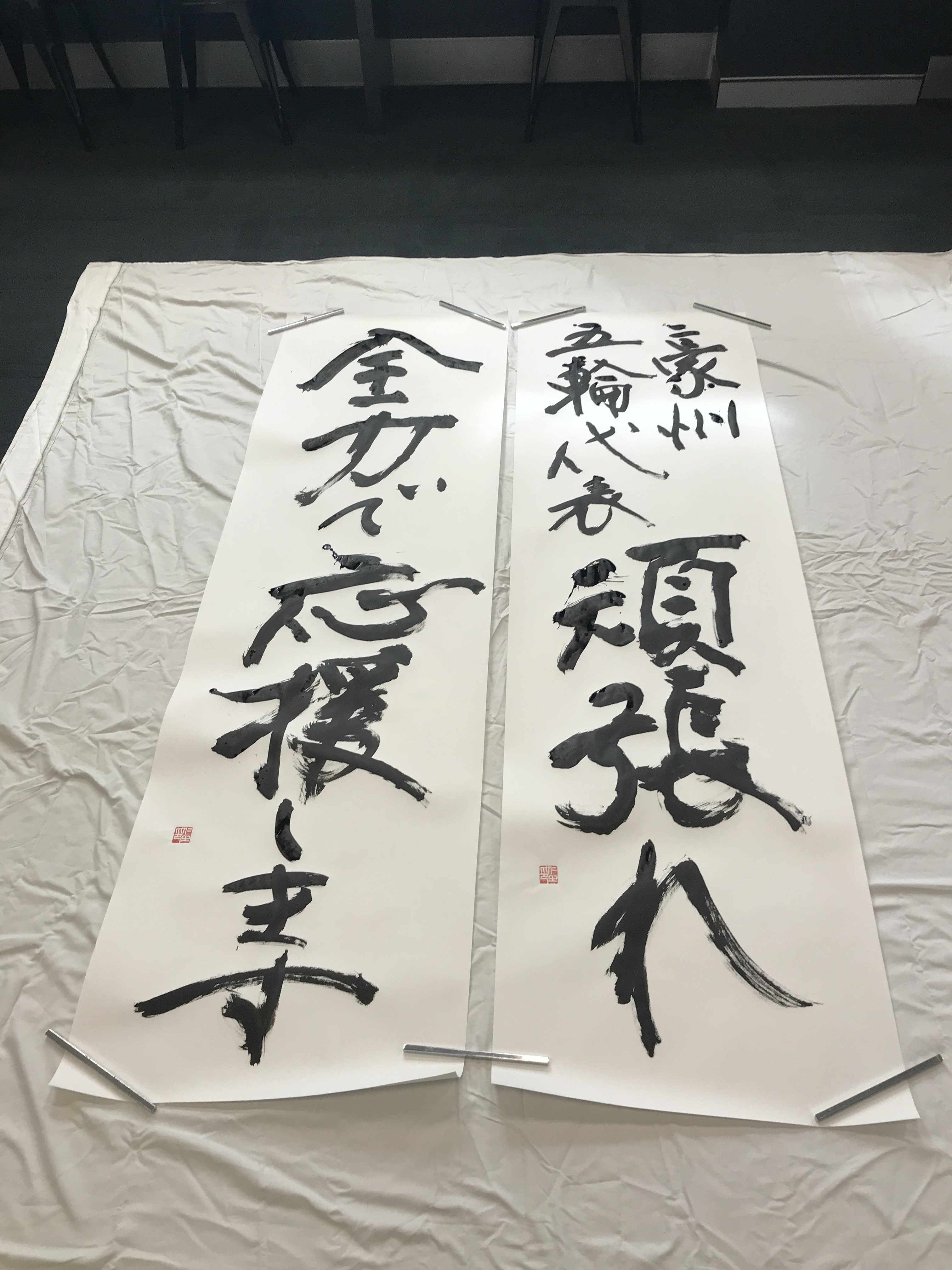 Writing20200309